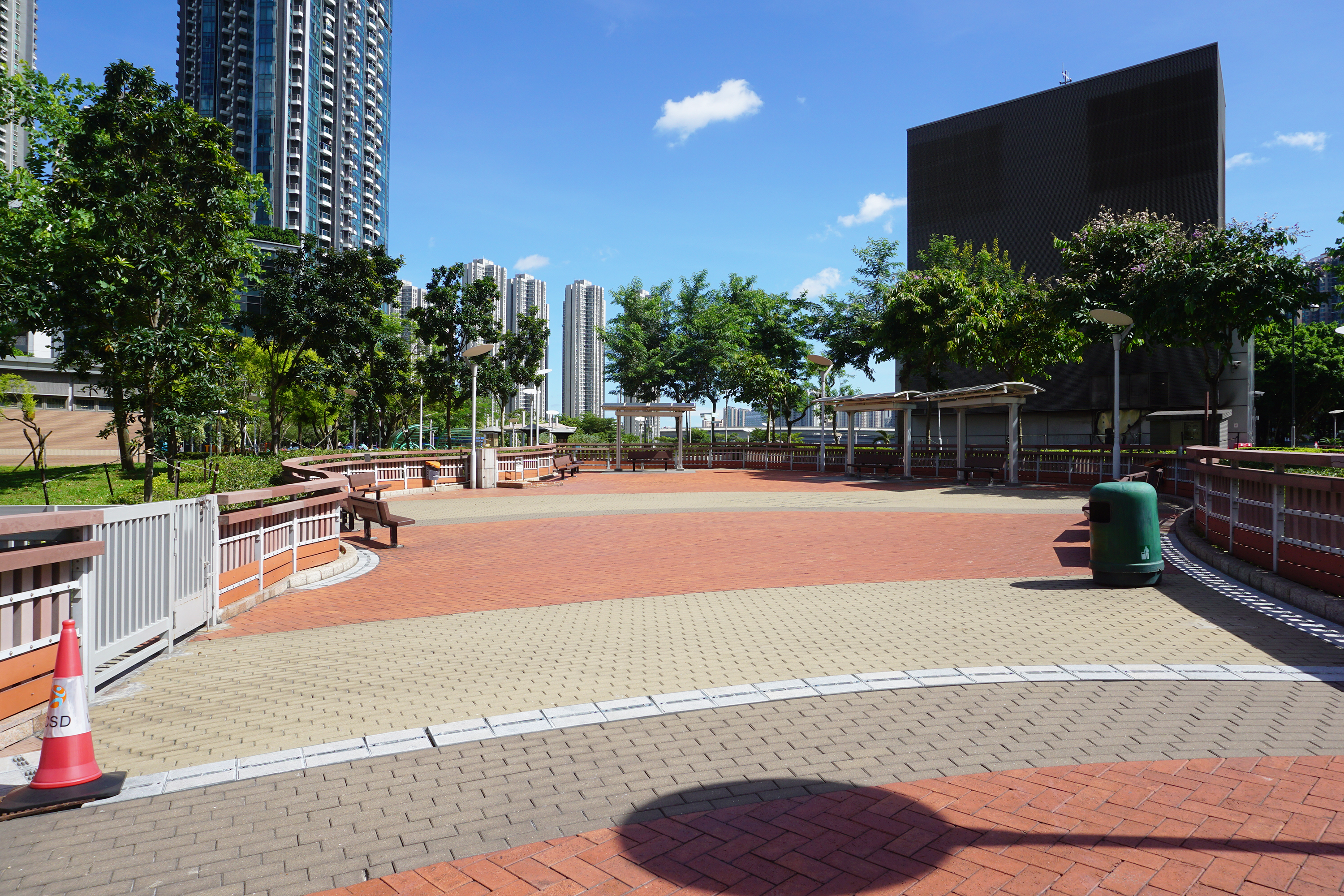 Tsuen Wan Park in Tsuen Wan, Hong Kong.